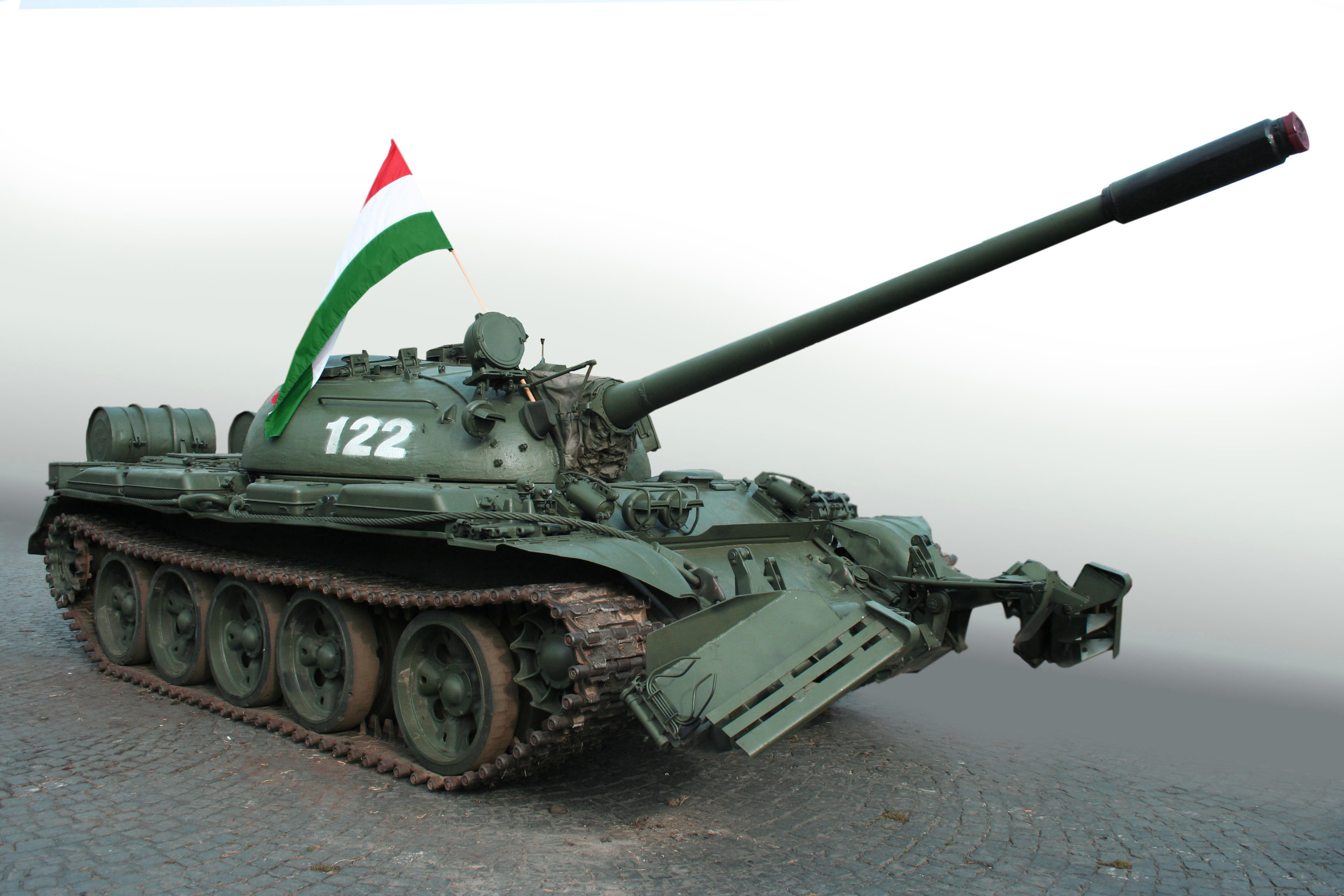 Hungarian Revolution, October 1956 - Sovjet tank with Hungarian flag